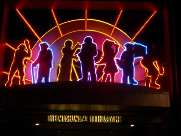 Main entrance of The American Jazz Museum in Kansas City at night.